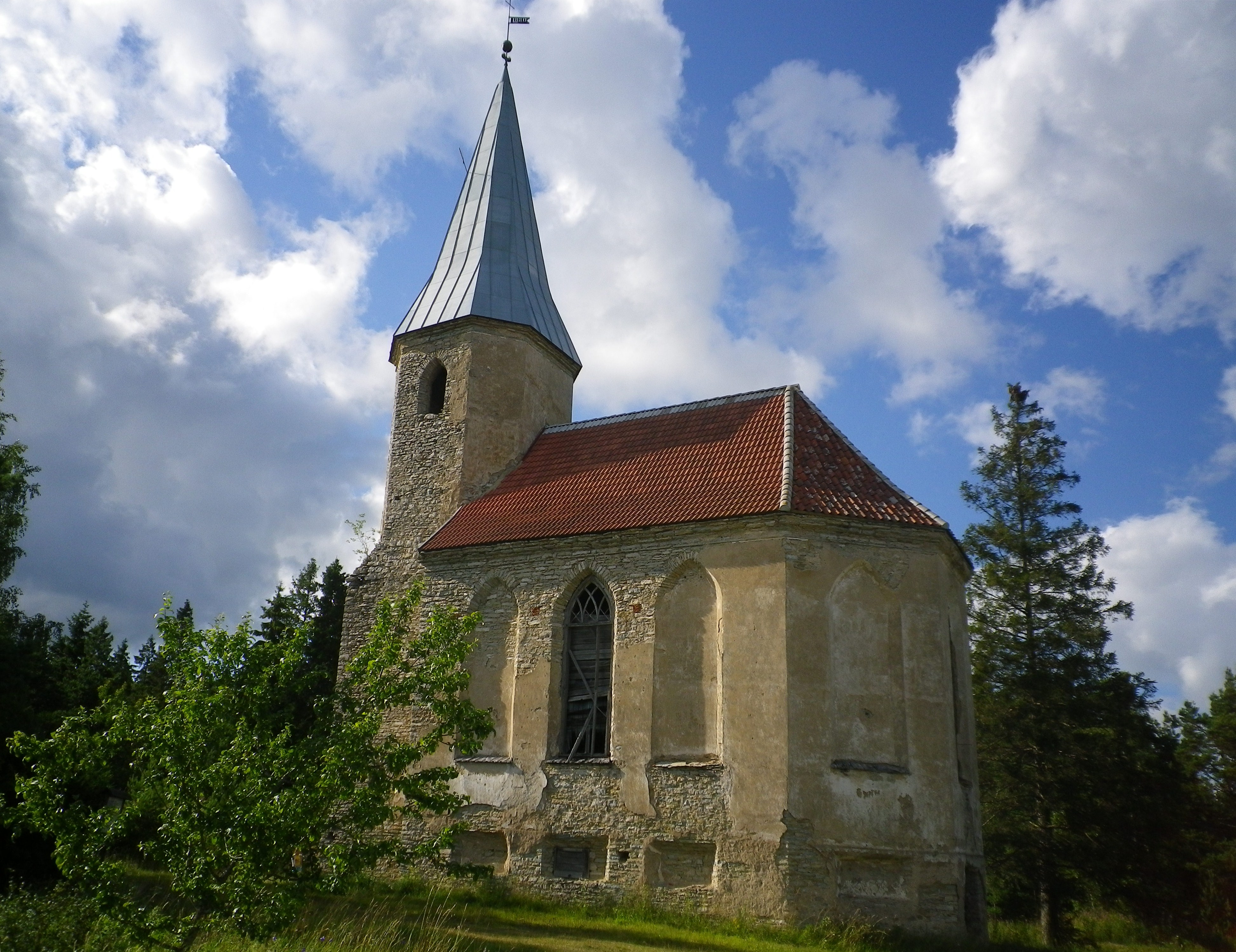 Paluküla church, Hiiumaa, Estonia